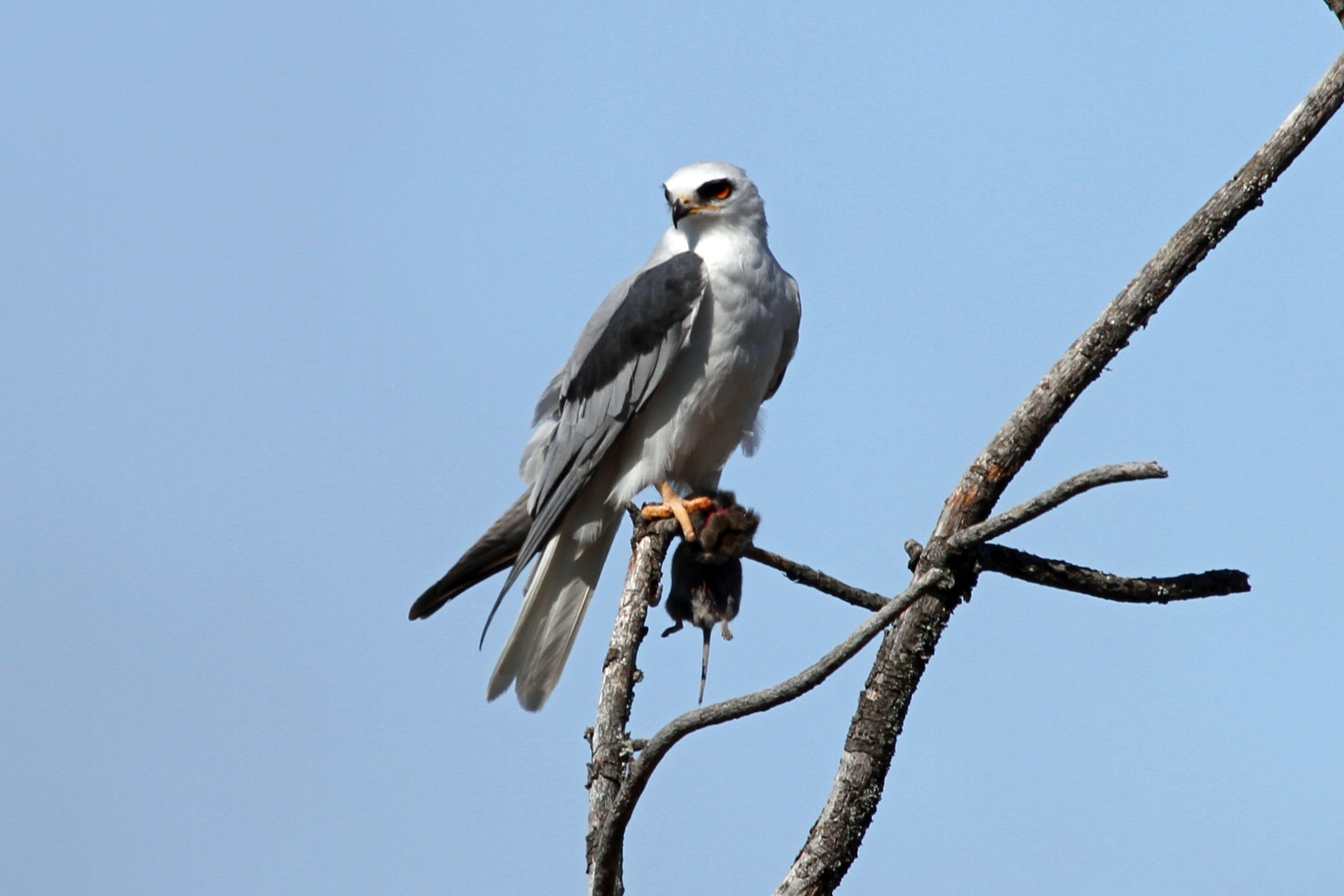 Elanus leucurus - White-tailed Kite and Lunch